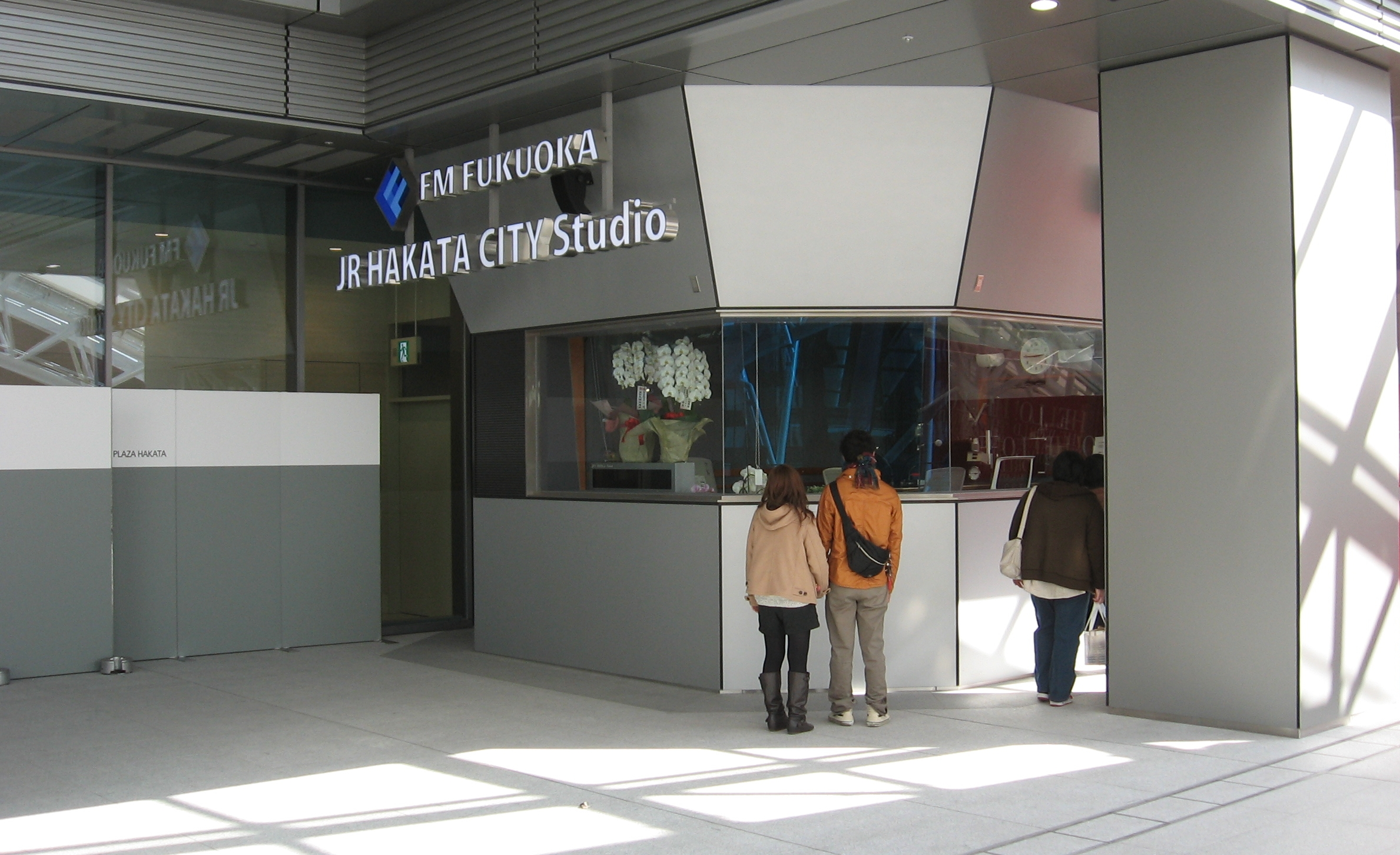 FM FUKUOKA JR HAKATA CITY Studio, Fukuoka, Japan.